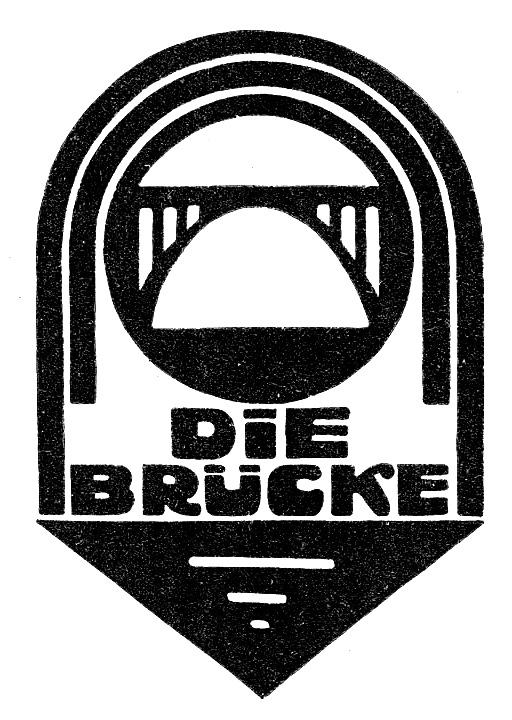 Logo of “Die Brücke”